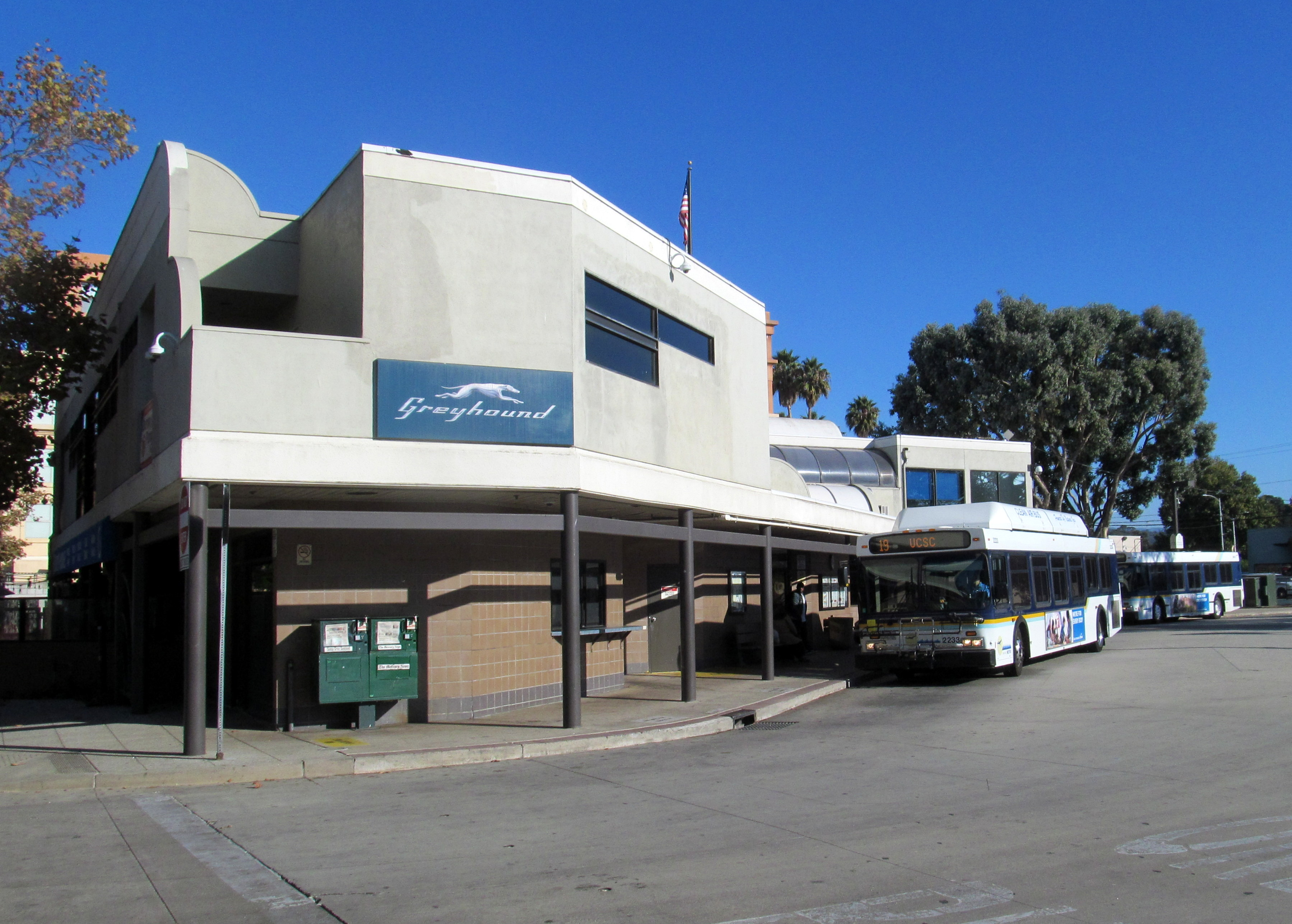 Santa Cruz bus terminal in October 2017